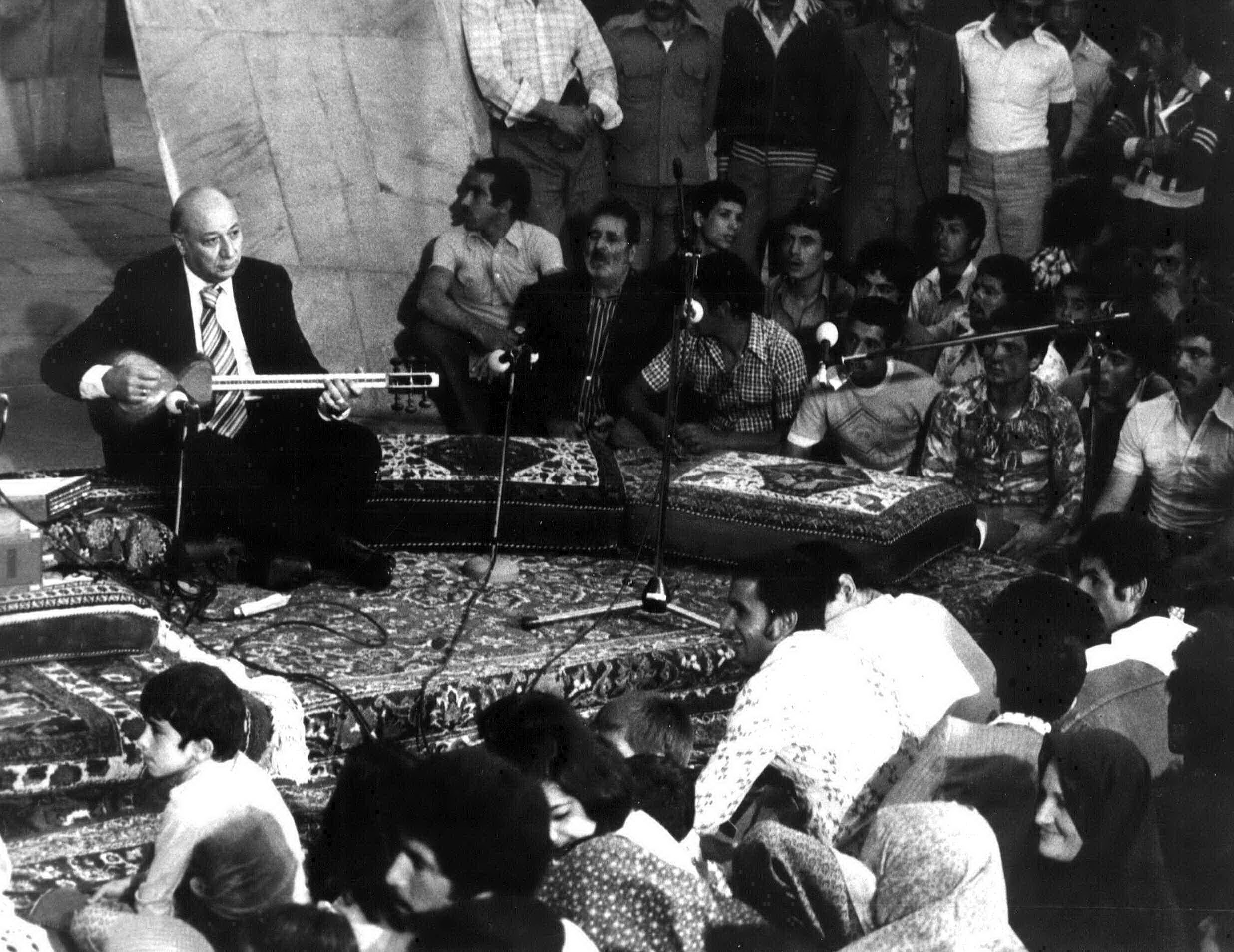 Jalil Shahnaz in Omar Khayyam Mausoleum-Nishapur